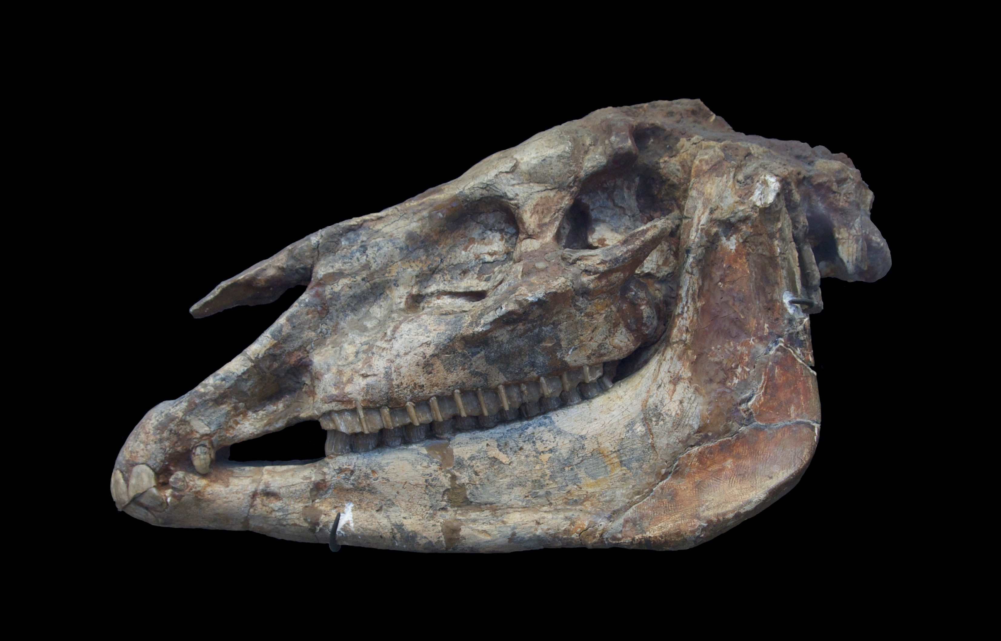 Hipparion gracile, skull, 8 millions years ago, Miocene, Pikermi (Greece). National Museum of Natural History, Paris. Gallery of Paleontology and Compared Anatomy.